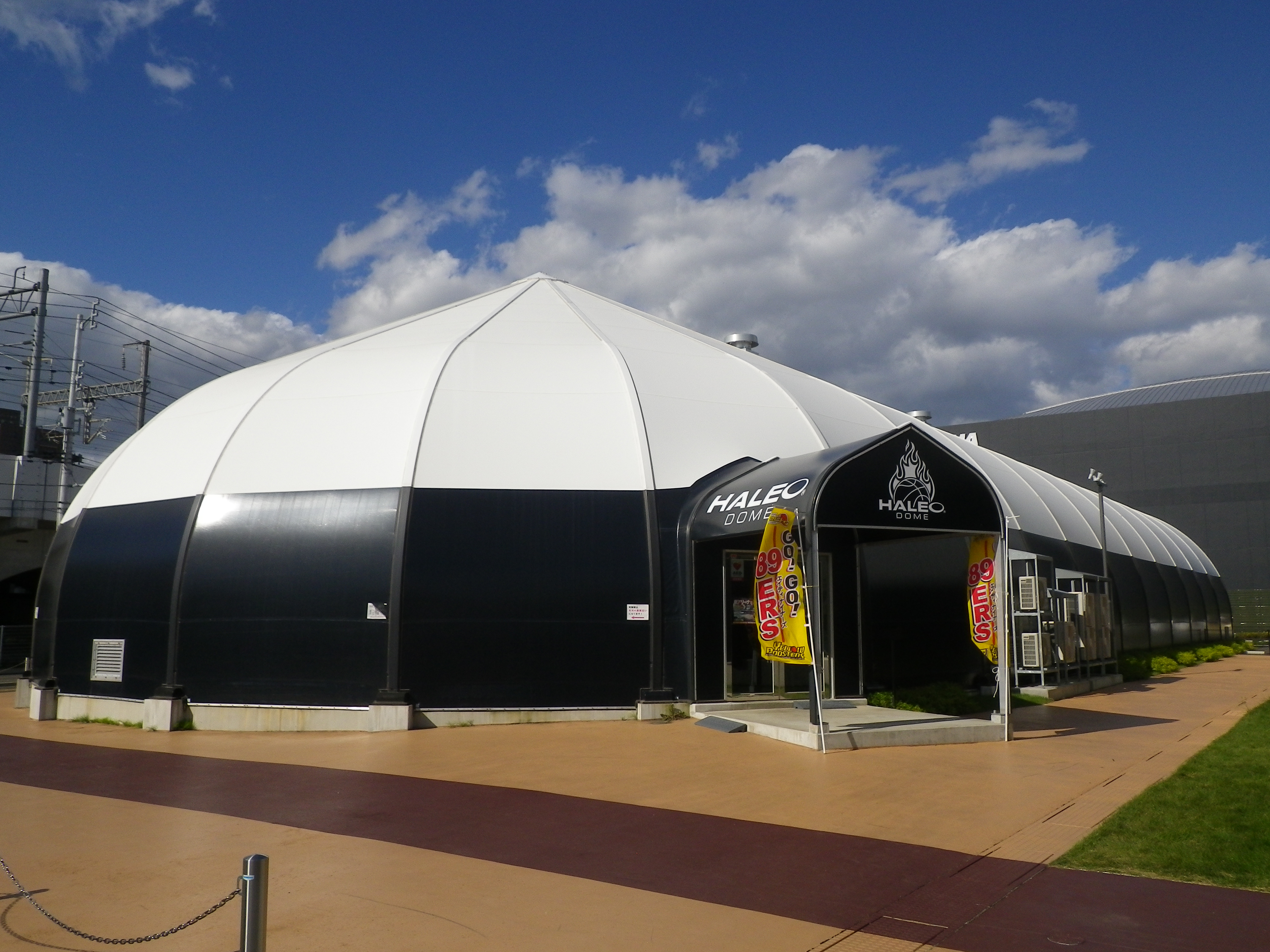 The 89ERS Dome in SRG Takamiya Sports Park Asuto Nagamachi has been called "HALEO DOME" under the naming rights deal with Bodyplus International from Aug. 1, 2011.